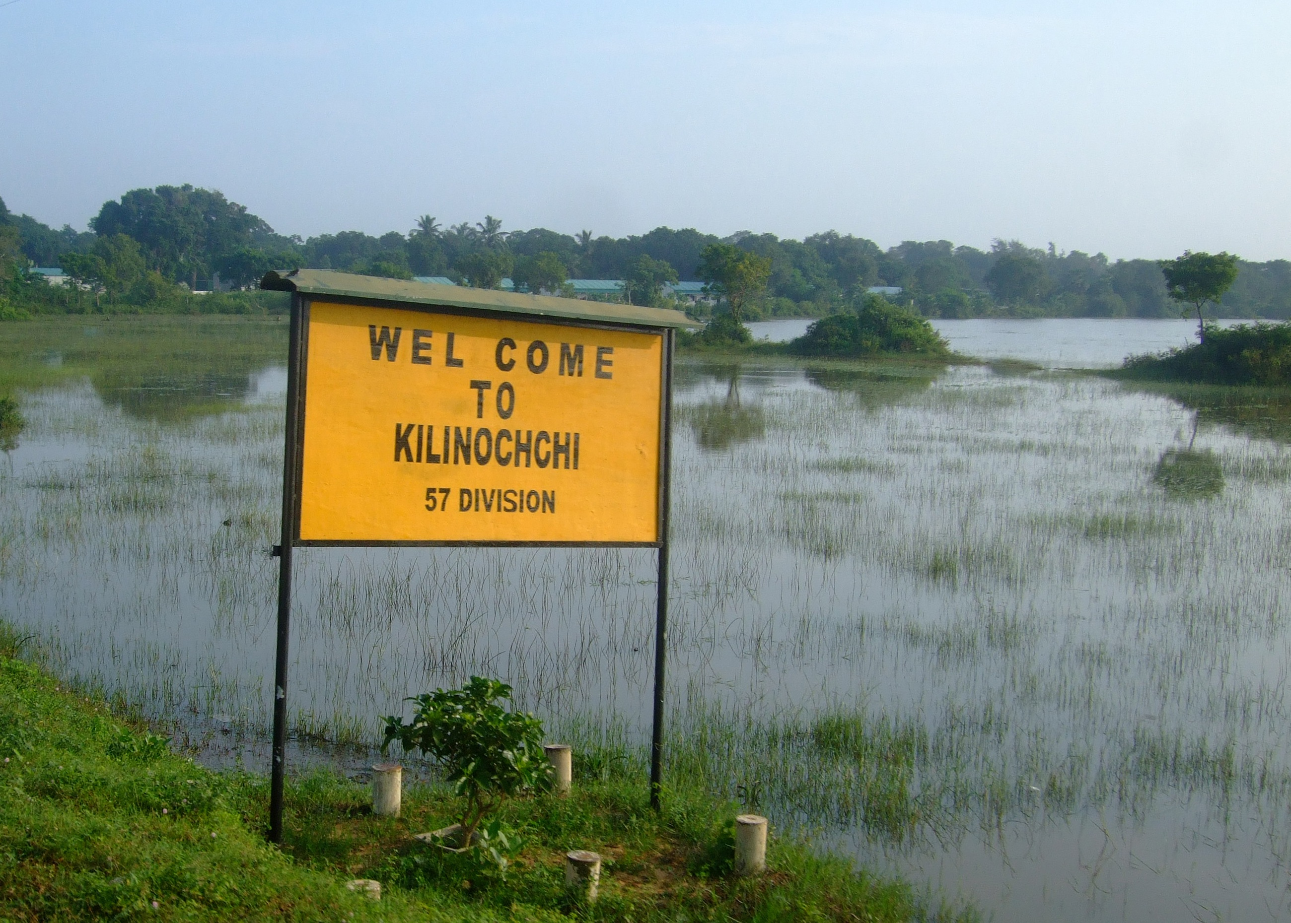 The welcome sign at Kilinochchi, Sri Lanka.